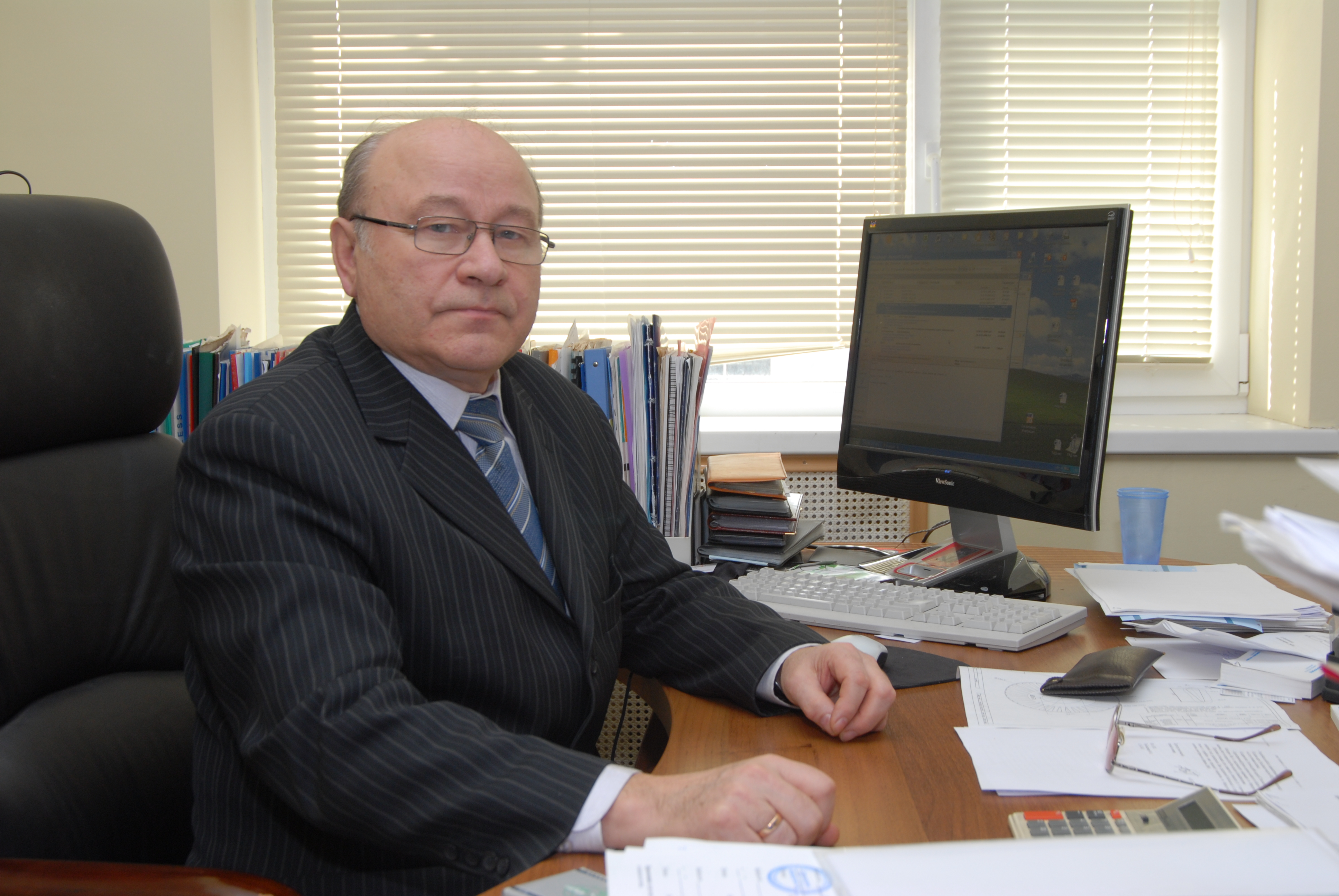 Lev Makarov